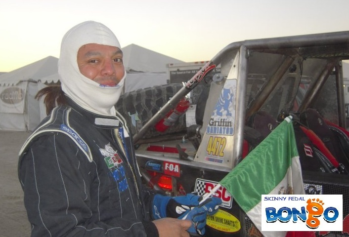 Jose Manuel Ponce racing at the King of the Hammers, the toughest race on the planet.